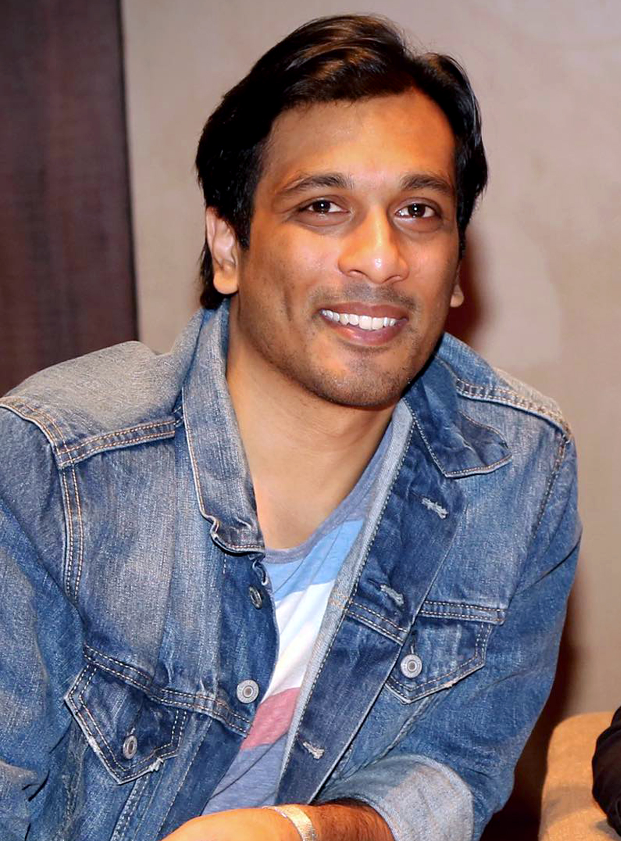 American actor Rahsaan Noor at a promotional event of the film "Bengali Beauty" at Independent University, Bangladesh Wednesday, Sept. 19, 2018 in Dhaka. Photo Credit: (Ziryab Entertainment)